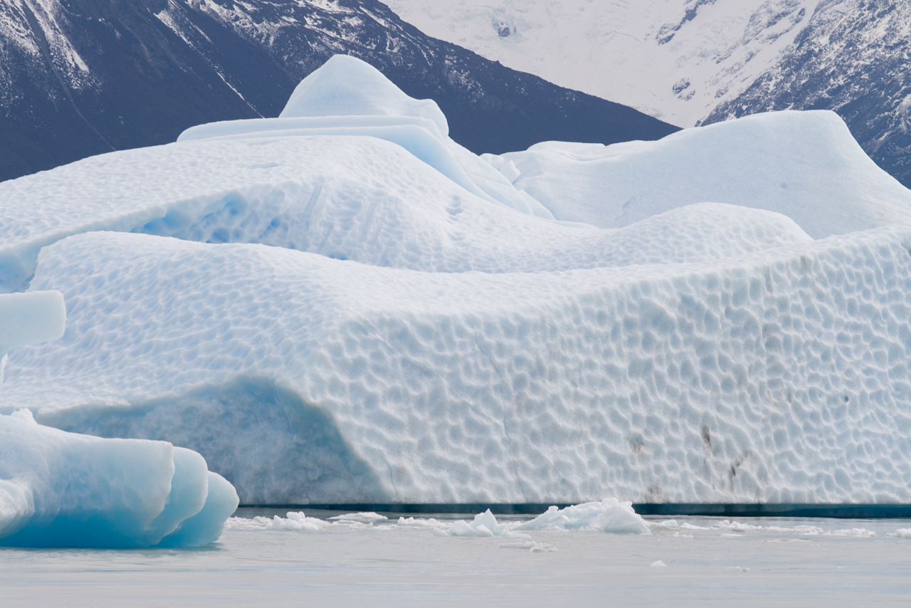 Iceberg carved by weather and water